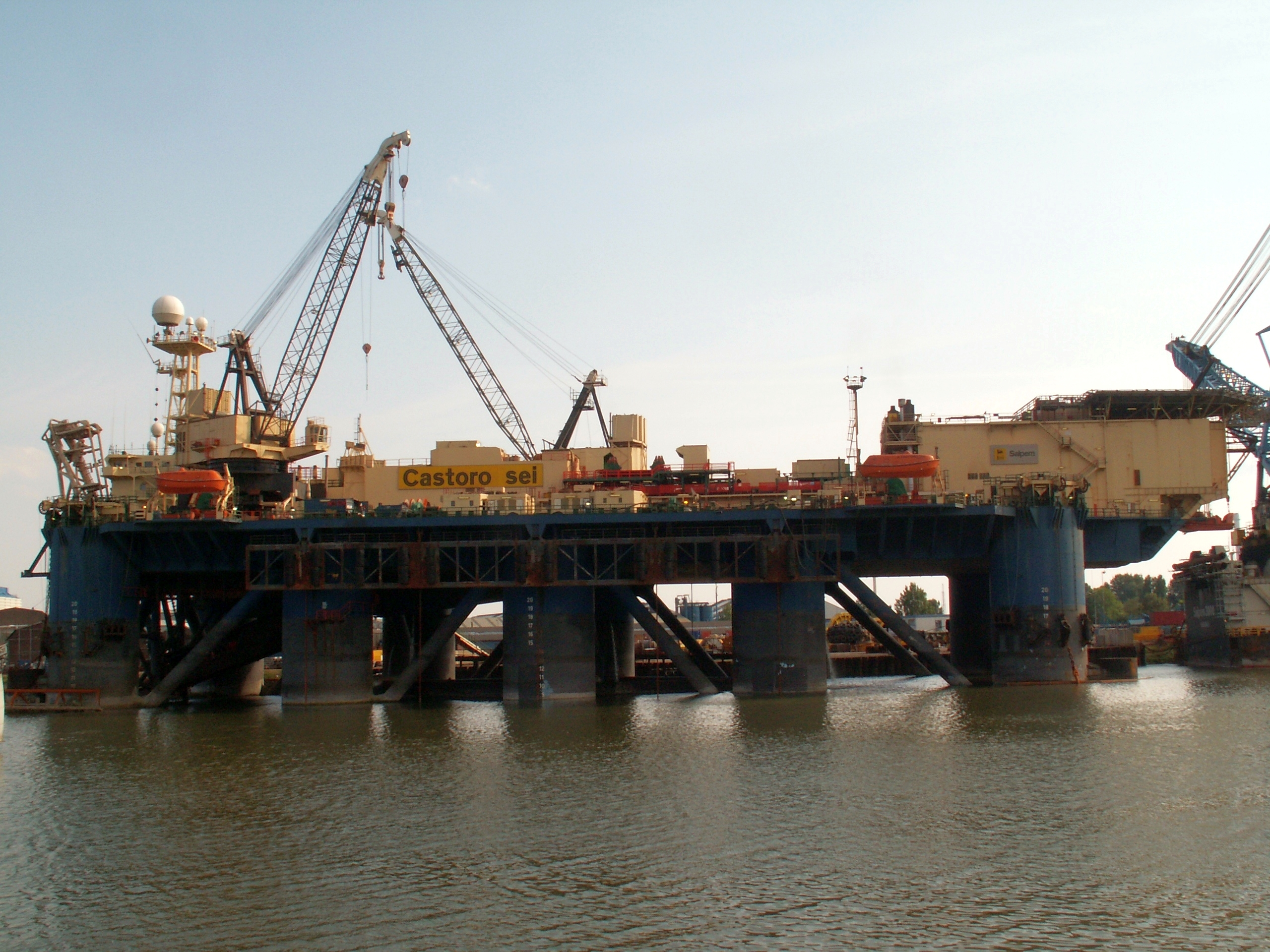 Photographed at The Netherlands KONICA MINOLTA DIGITAL CAMERA